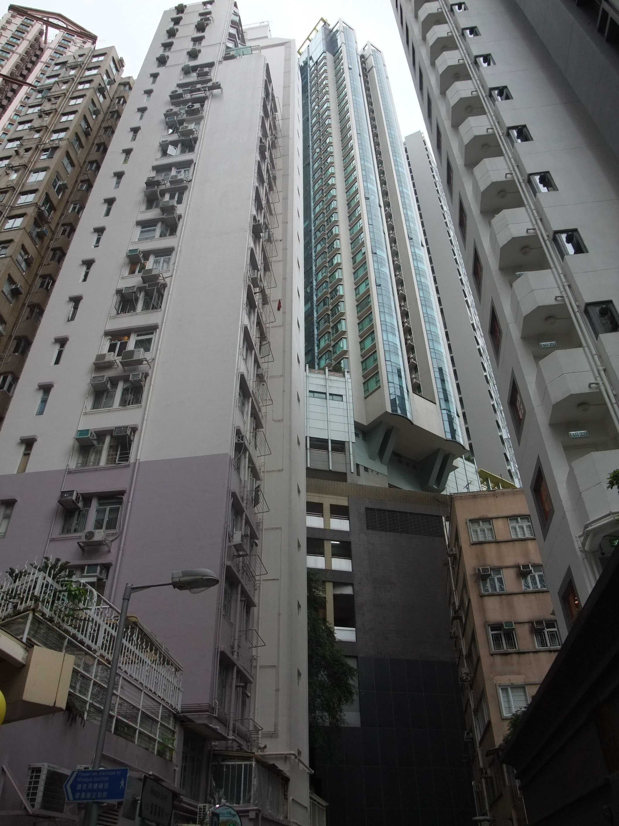 View from Mosque Street on Ryan Manson (left), Palatial Crest (center, background) and Daisy Court (right, border) in Hong Kong